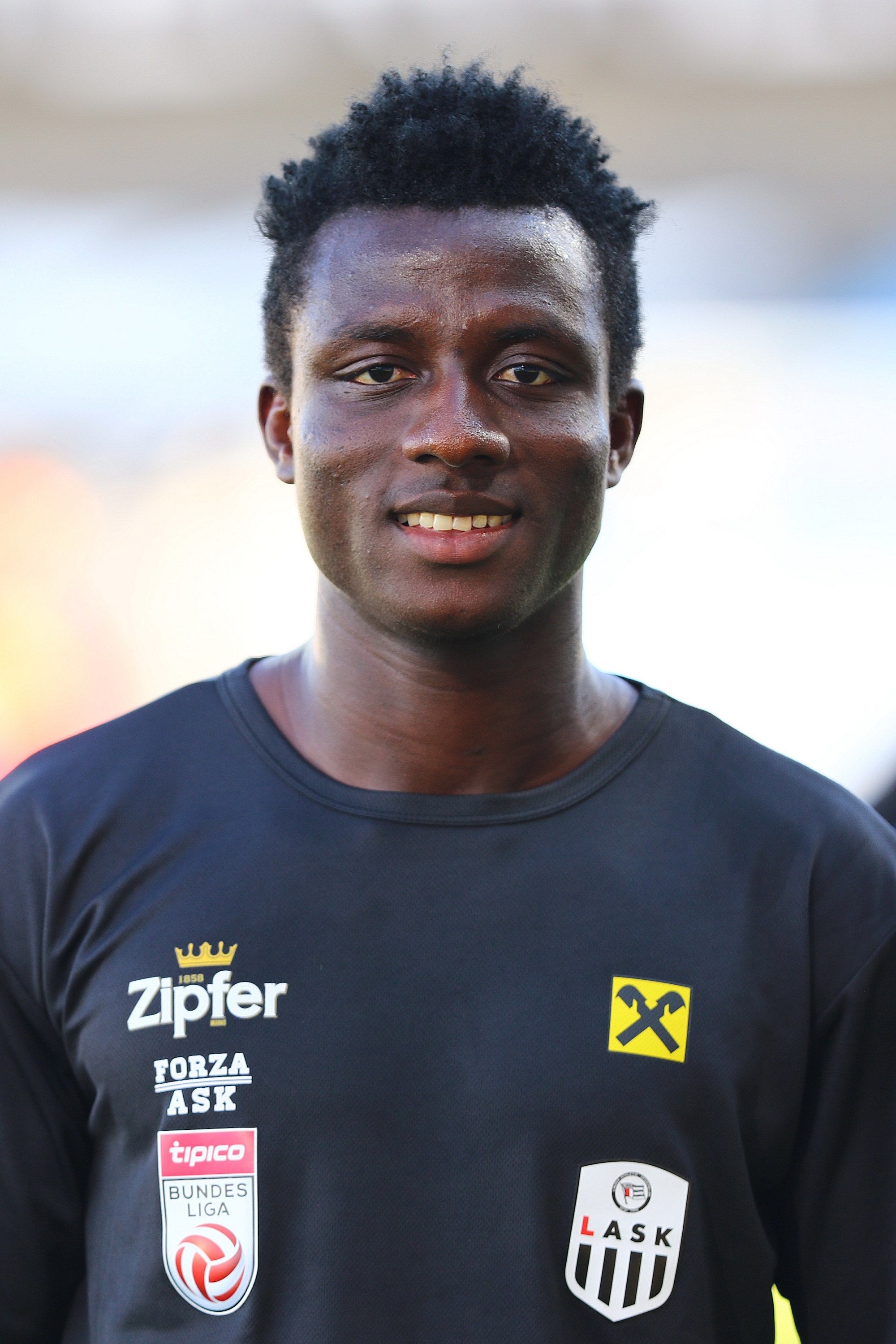 Championshipmatch of the Austrian Bundesliga 2018–19 FC Admira Wacker Mödling (red shirts) vs. LASK Linz (black-white shirts) 0-1 (0-0) at 2018-08-12 in the Bundesstadion Südstadt in Maria Enzersdorf. – The photo shows . Reuben Acquah